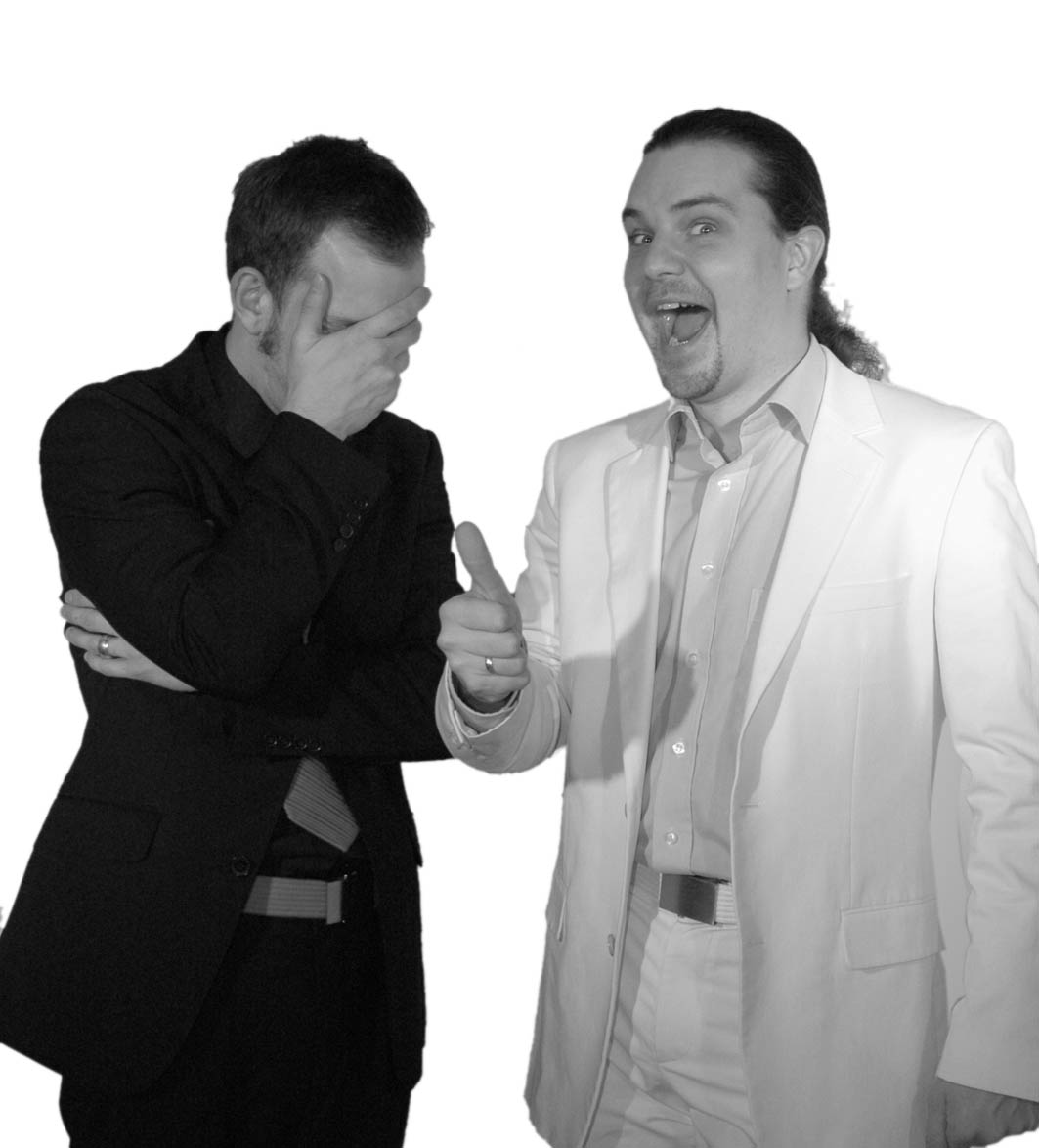 The HengstmannBrueder